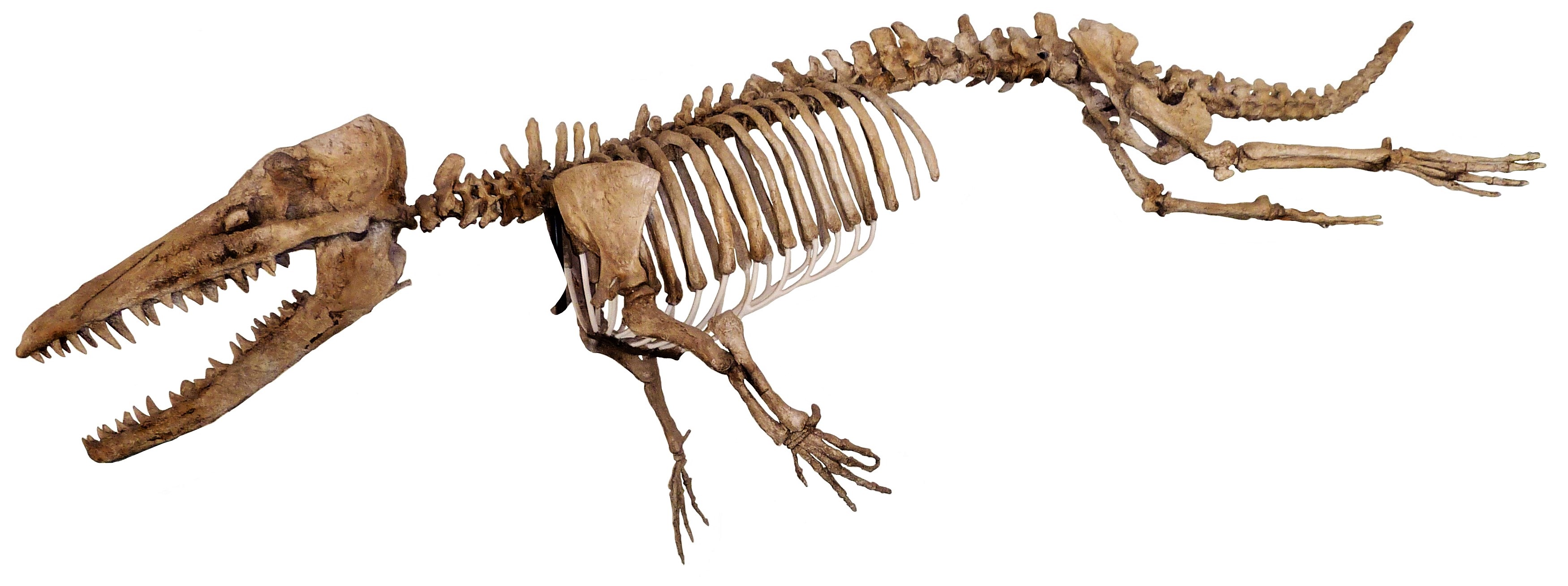 Ambulocetus natans Pisa